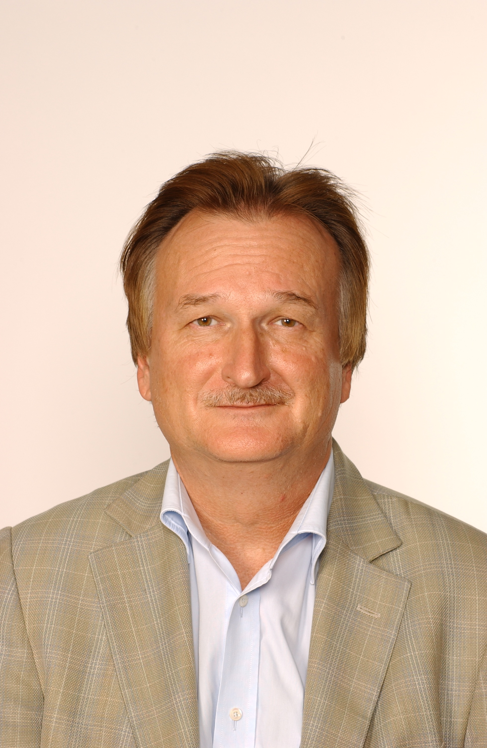 Dr. Ernest Wallmüller